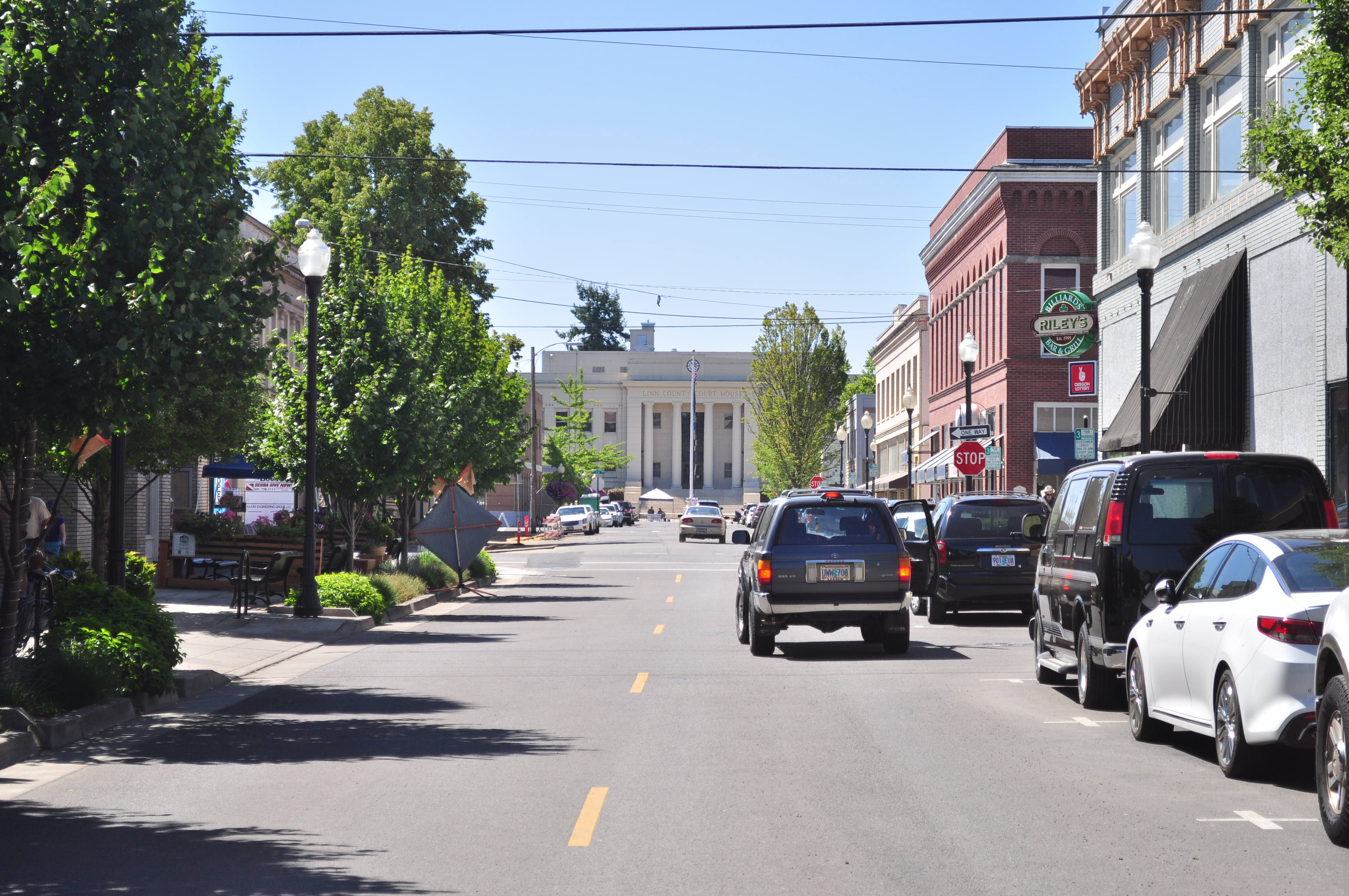 Remote view of Linn County Courthouse, Albany, Oregon, U.S.